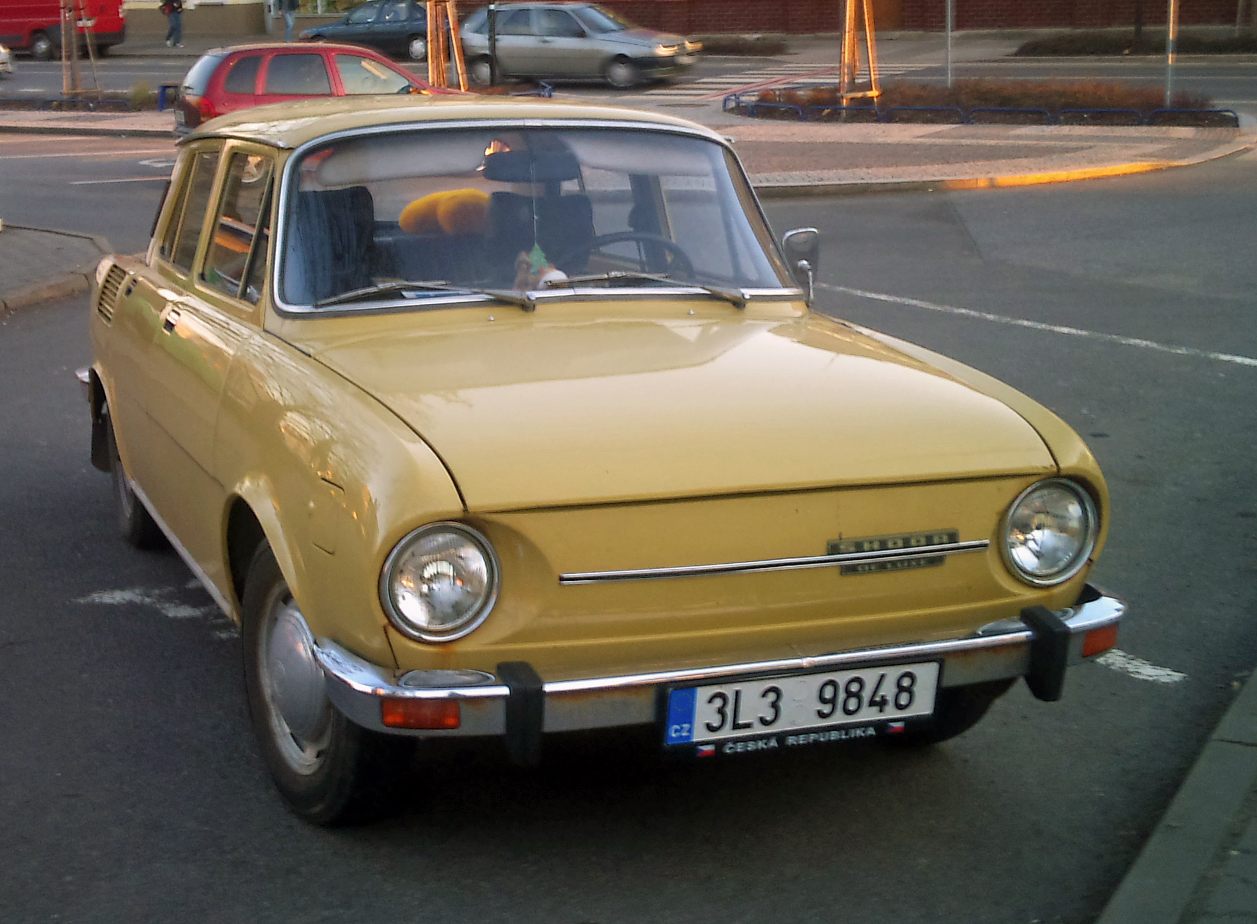 Škoda 100 or 110 in "Sahara" yellow/beige